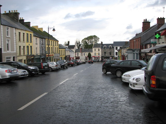 O'Connell Street, Ballymote Looking north-west.